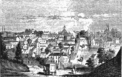 Knoxville, Tennessee, USA, viewed from the campus of East Tennessee University (now the University of Tennessee), circa 1857–1860. Cumberland Avenue is on the left, and Main Street is on the right. The old courthouse cupola is visible at the center.